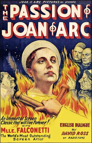 Motion picture poster for The Passion of Joan of Arc directed by Carl Theodor Dreyer, with Renée Jeanne Falconetti (pictured) and Antonin Artaud, produced in France in 1927 and first shown in Copenhagen in 1928. The poster consists of a painting and does not contain any stills from the French film.